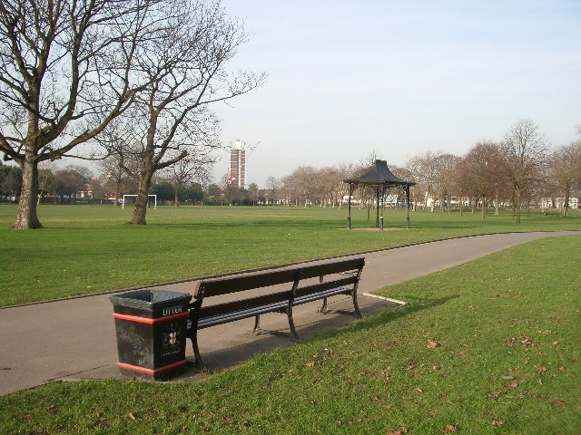 A Grade II Listed Park. West Ham Park, 77 acres, has been owned and managed by the Corporation of the City of London, whose the arms are proudly borne on the litter bins, since 1874. The park is listed as a Grade II site on the English Heritage Register of parks and gardens of specific historic interest.